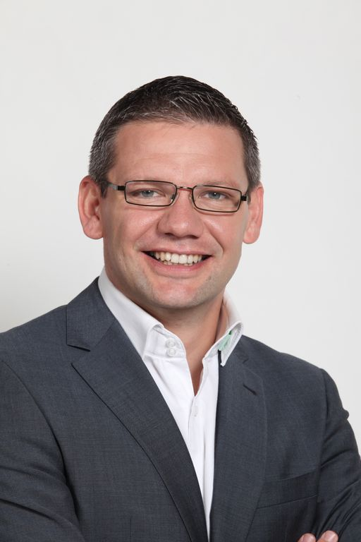 Iain Lees Galloway - NZ Labour Party MP